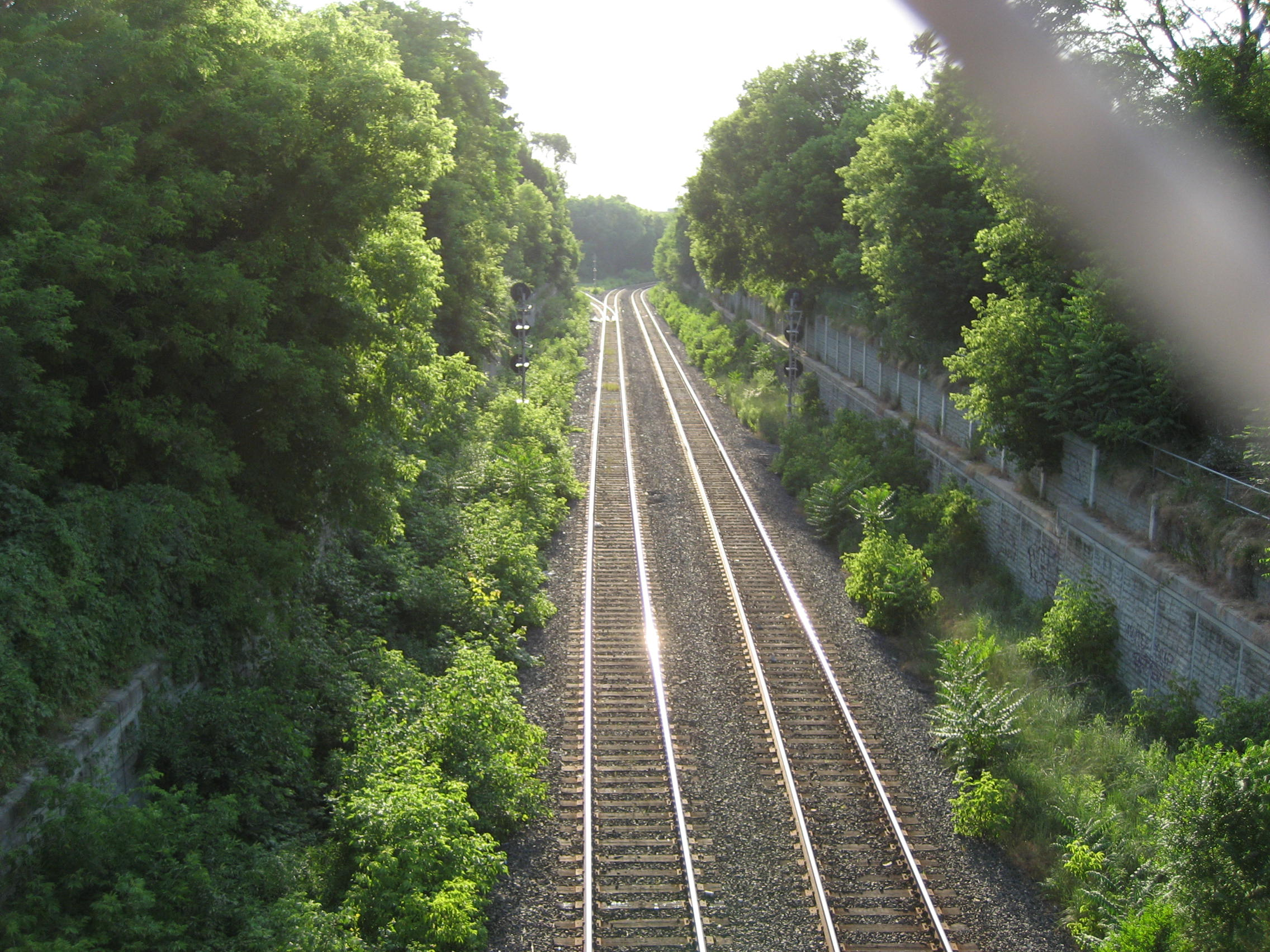 Canadian Pacific Railway line, view from overpass bridge on Locke Street South, Hamilton, Ontario